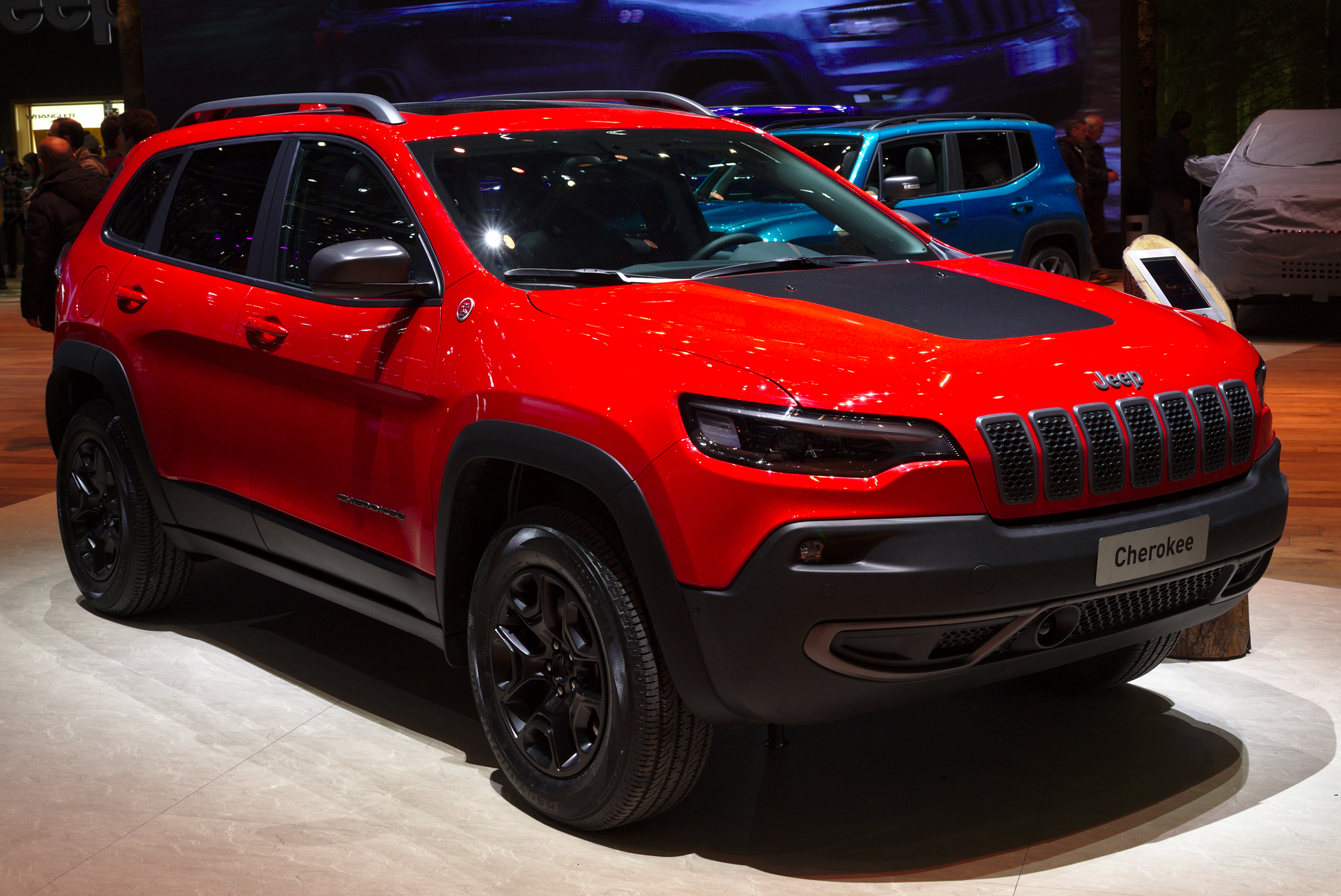 Jeep Cherokee Trailhawk at Geneva Motor Show 2019